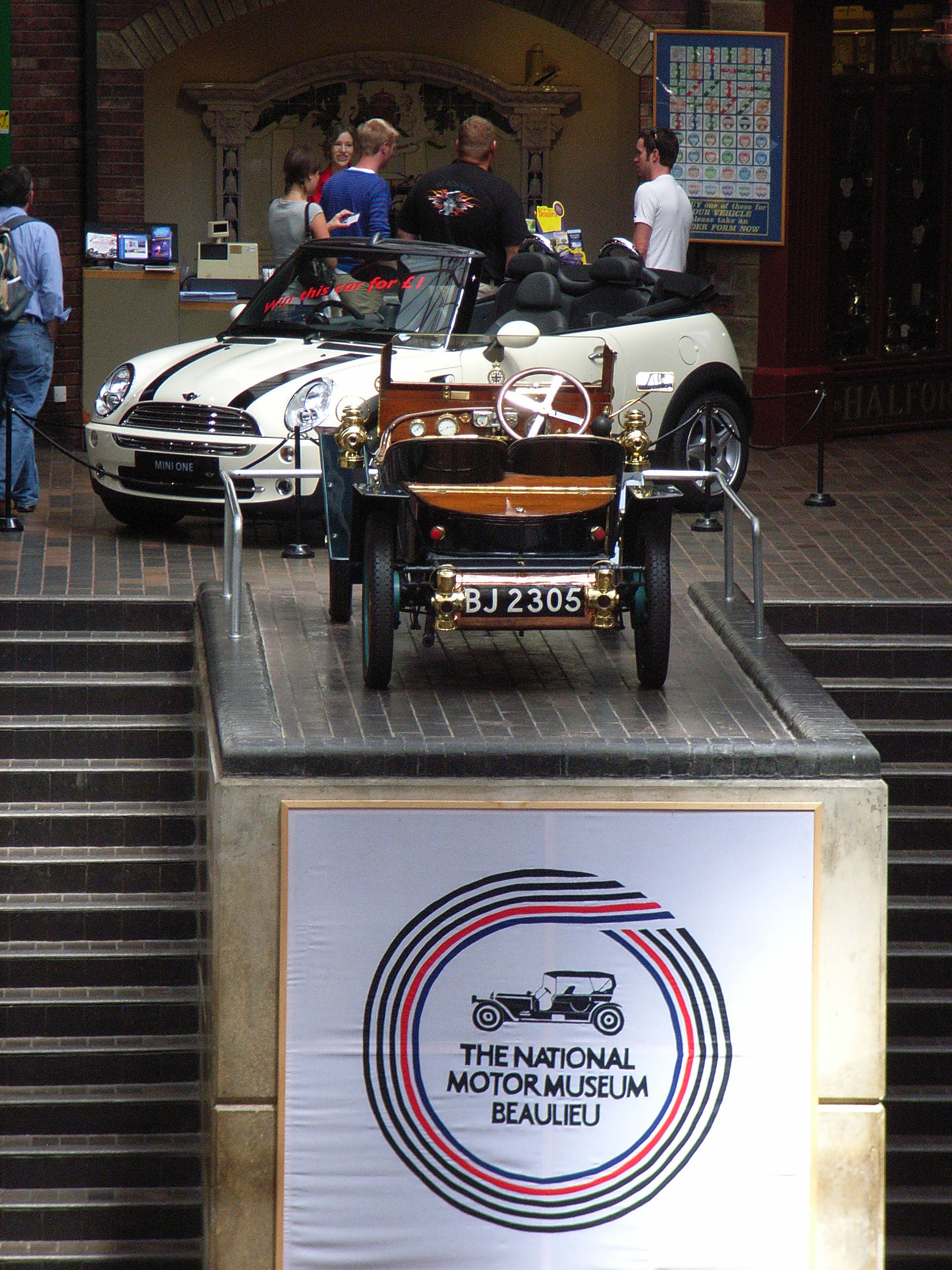 National Motor Museum in Beaulieu, one of the exhibits: 1910 Bugatti Type 15.